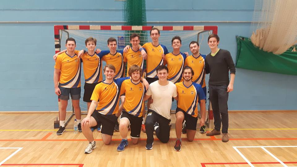 Squad photo of Bath Bombs HC 2016